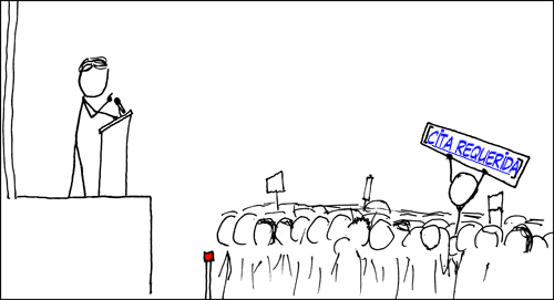 Translation of xkcd webcomic 285 entitled "Wikipedian Protestor".